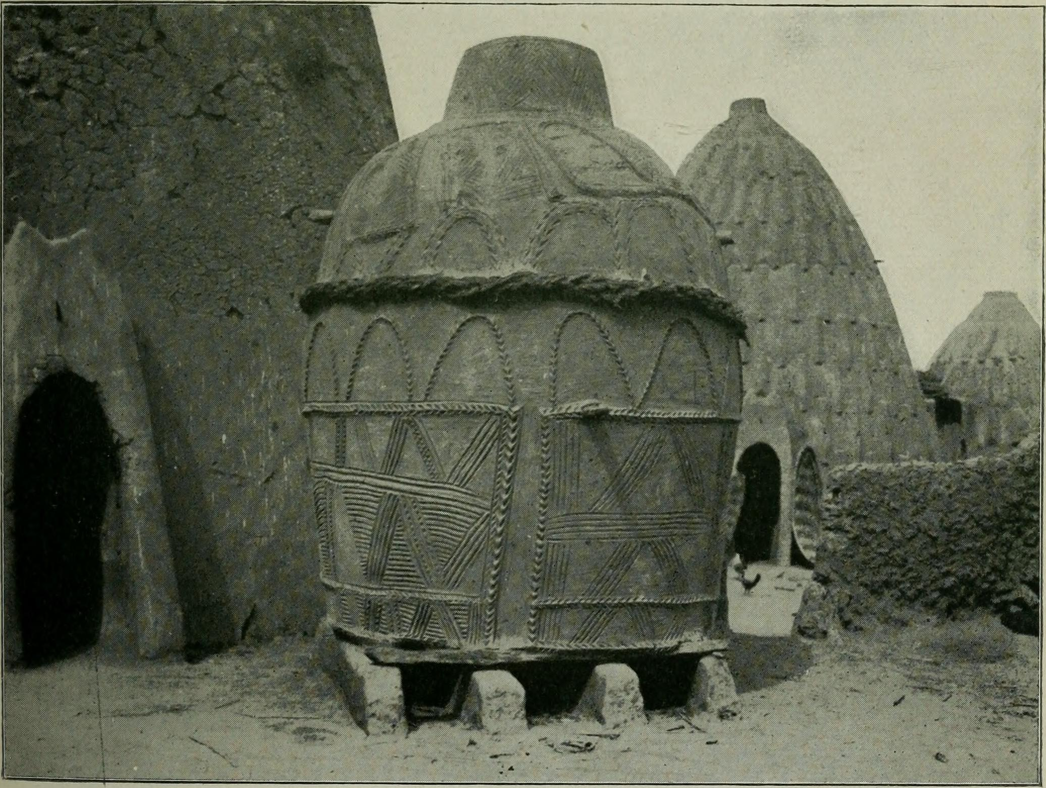 Title: From the Congo to the Niger and the Nile : an account of The German Central African expedition of 1910-1911 Year: 1913 (1910s) Authors: Adolf Friedrich, Duke of Mecklenburg-Schwerin, 1873-1969 Deutsche Zentral-Afrika-expedition, 1910-1911 Subjects: Publisher: London : Duckworth Text Appearing Before Image: 129. Musgum houses. Text Appearing After Image: 130. Earthenware corn store of the Musgum.